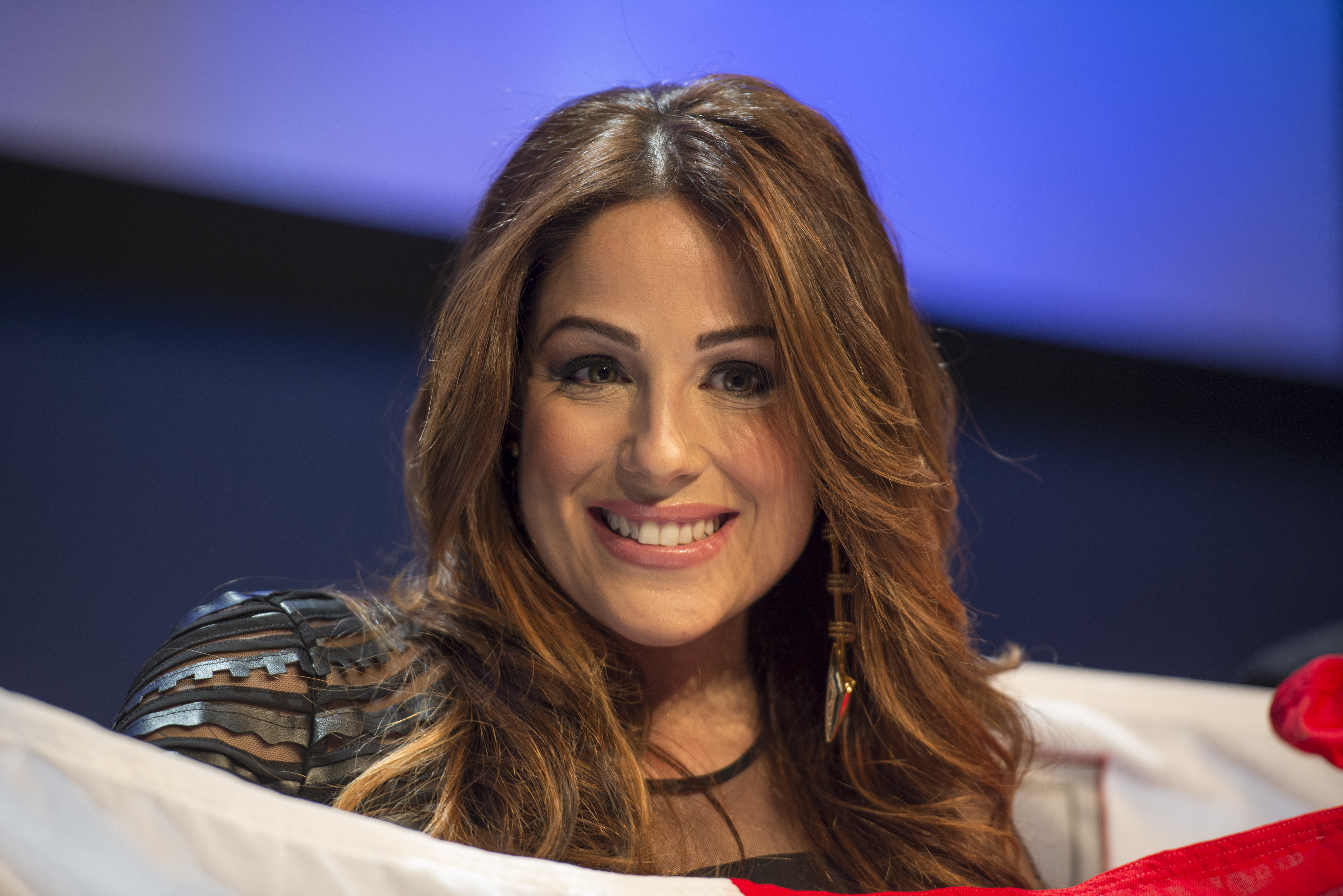 Ira Losco at a Meet & Greet during the Eurovision Song Contest 2016 in Stockholm. (Help translate this text)